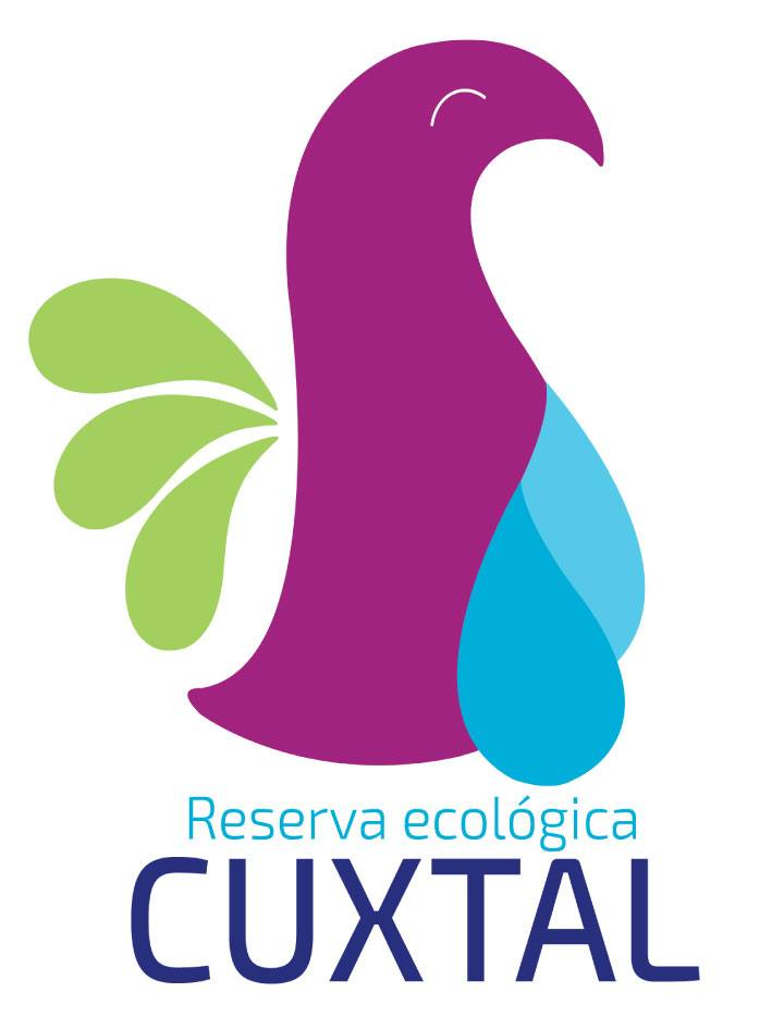 general information